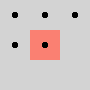 Image raster Scanning 8 connectivity